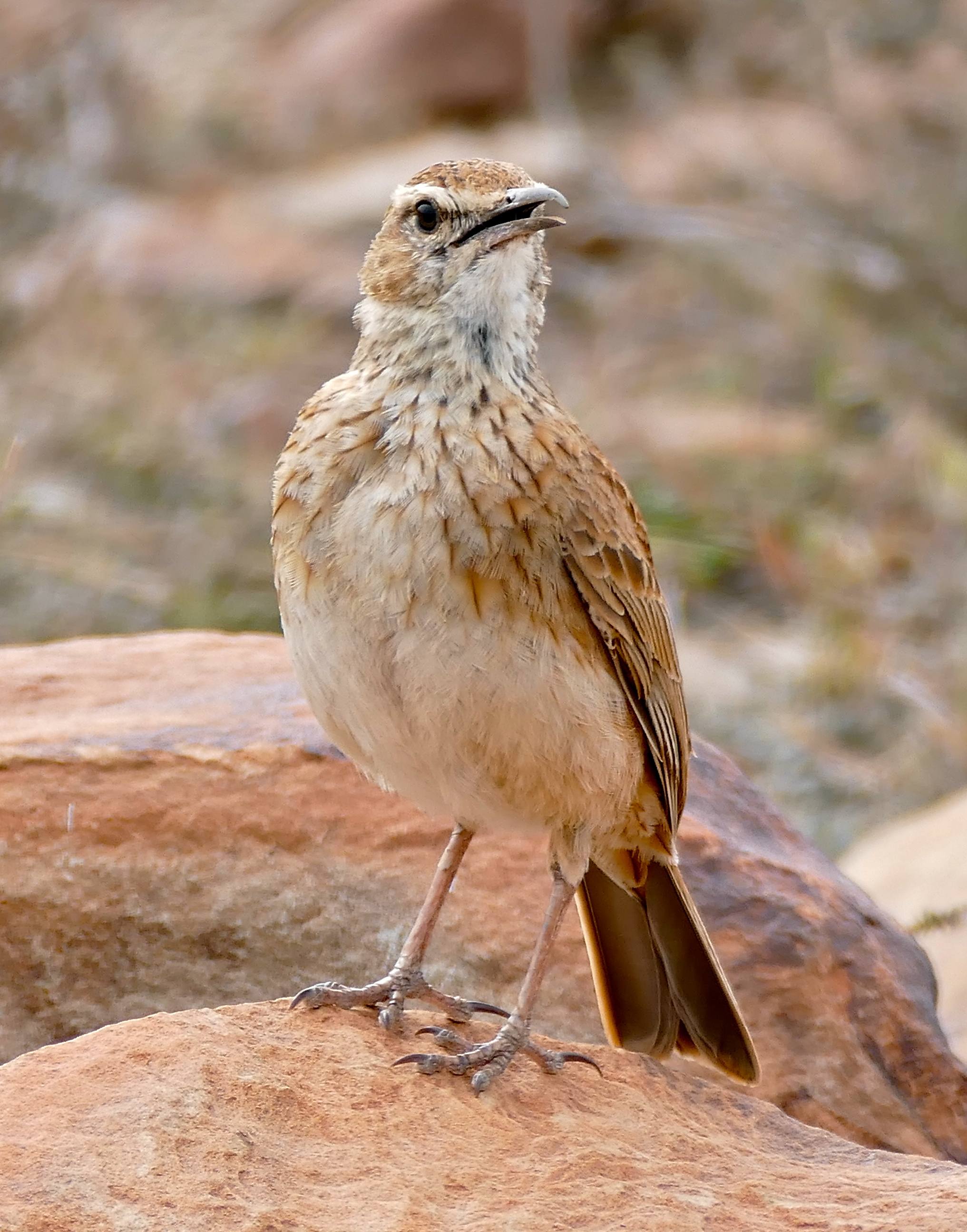 Rooiplat Loop, Mountain Zebra NP, Eastern Cape, SOUTH AFRICA